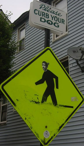 Ped Xing sign in Wicker Park.